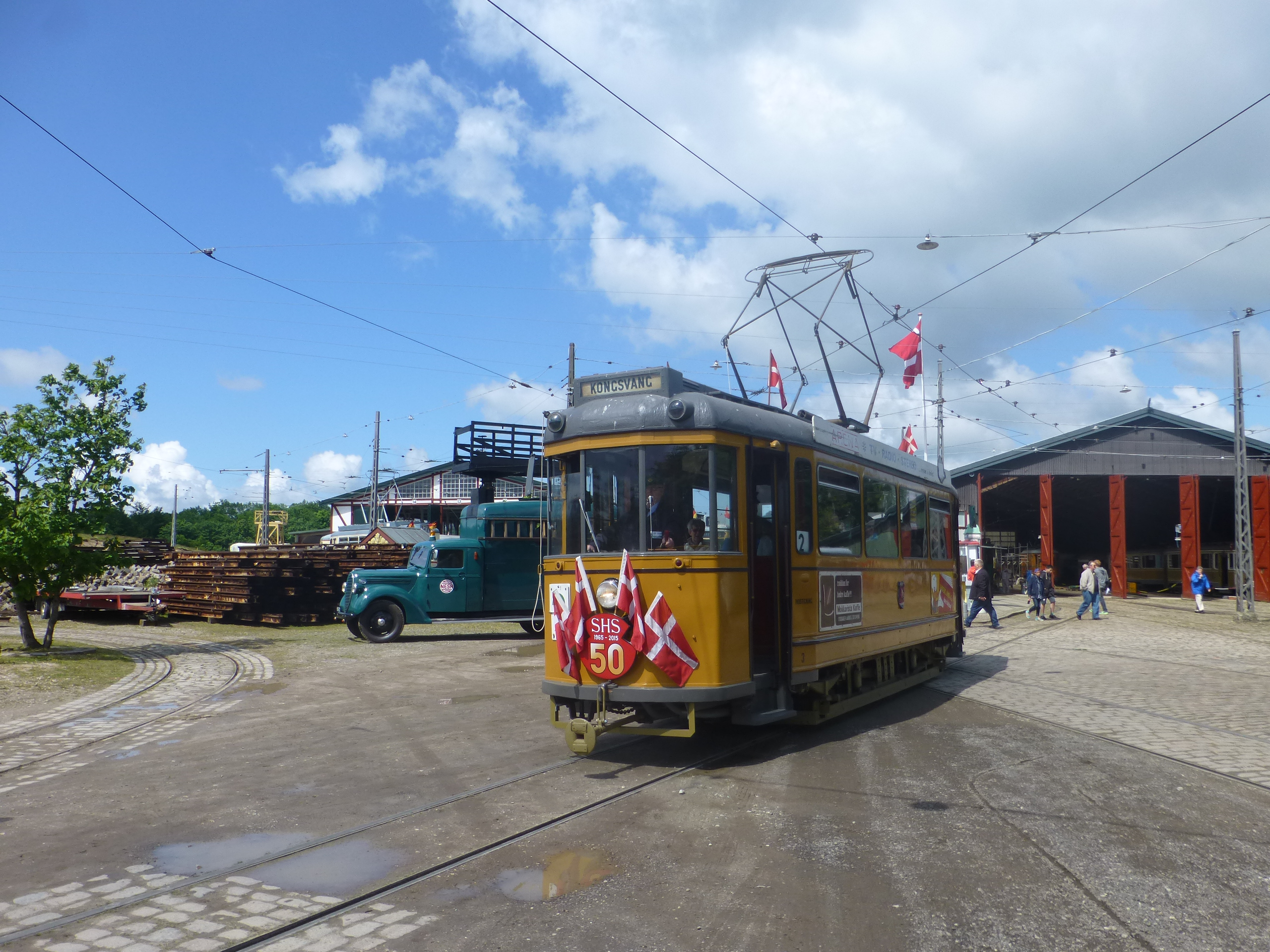 Tram parade at Sporvejsmuseet Skjoldenæsholm due to celebrating of 50 years of the Danish tramway society, Sporvejshistorisk Selskab. Tram from Aarhus, ÅS 3 from 1945.